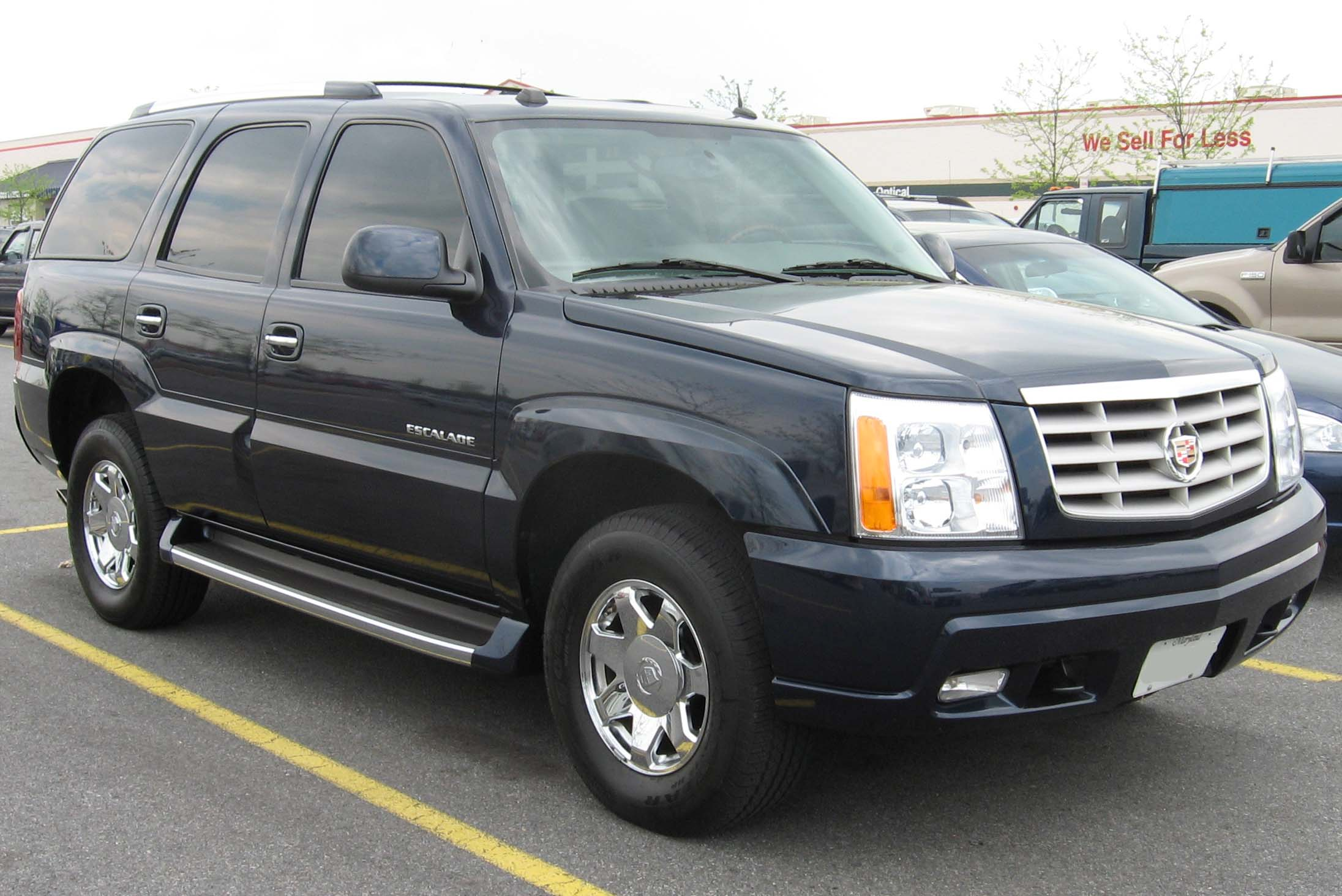 2002-2006 Cadillac Escalade photographed in USA.